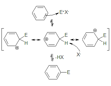 Description: Electrophilic aromatic substitution mechanism. Source: Myself using ISIS/Draw. Date: 29 January 2007.